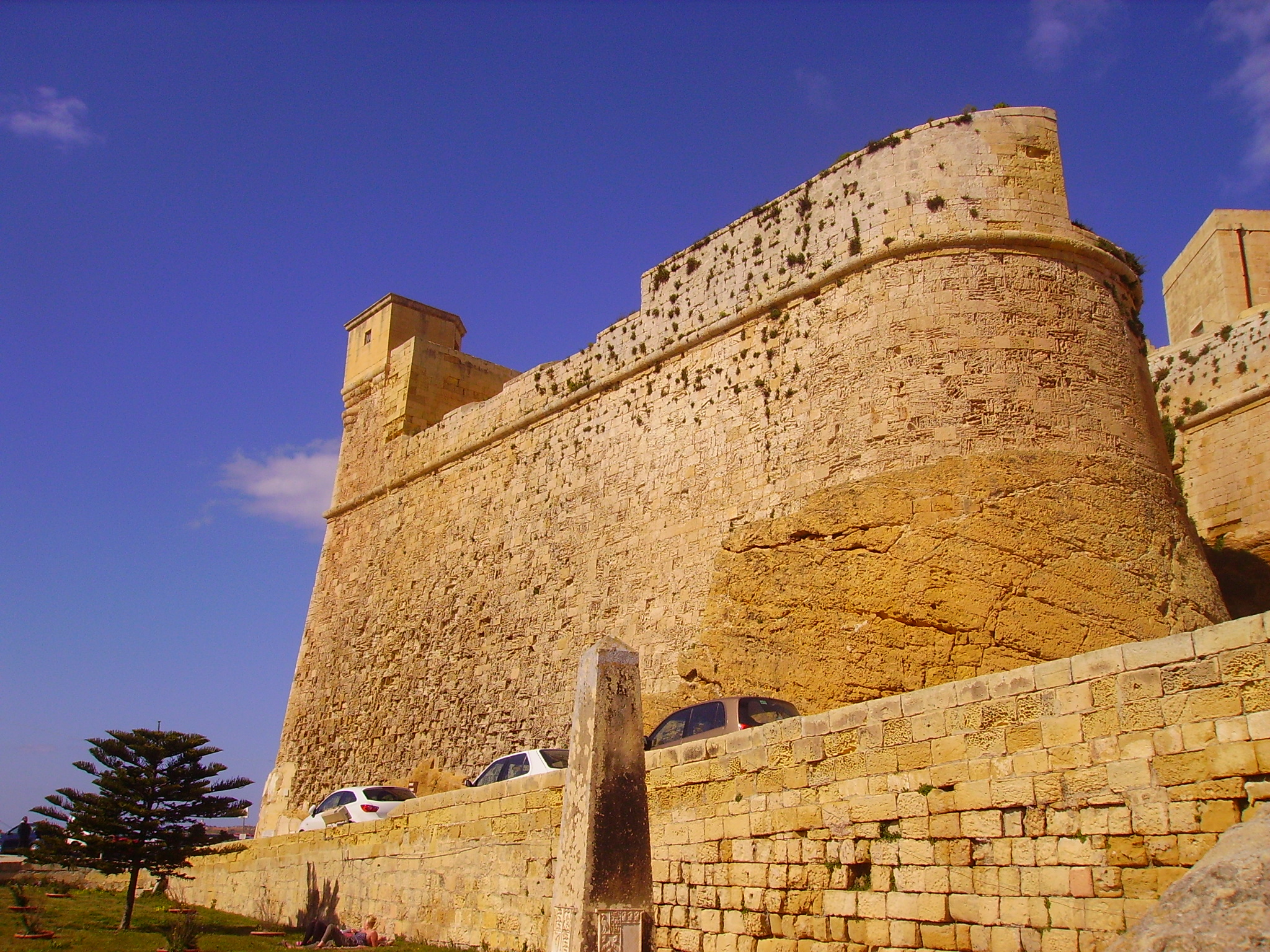 Citadel, Victoria